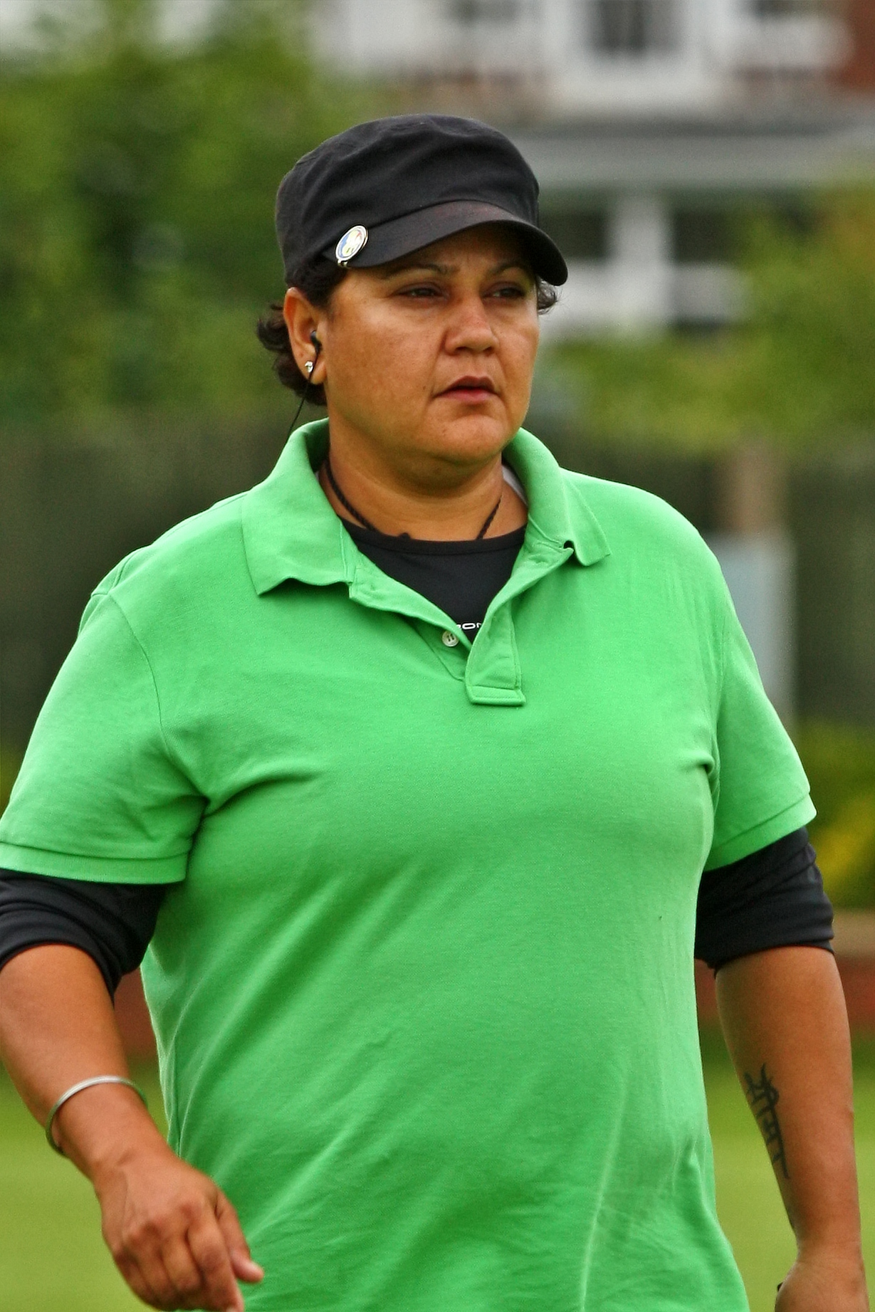 SOUTHPORT, UNITED KINGDOM - JULY 25: Smriti Mehra of India on the practice green prior to the final qualifying round of 2010 Ricoh Women's British Open held at Hillside on July 25, 2010 in Southport, England. (Photo by Wojciech Migda)